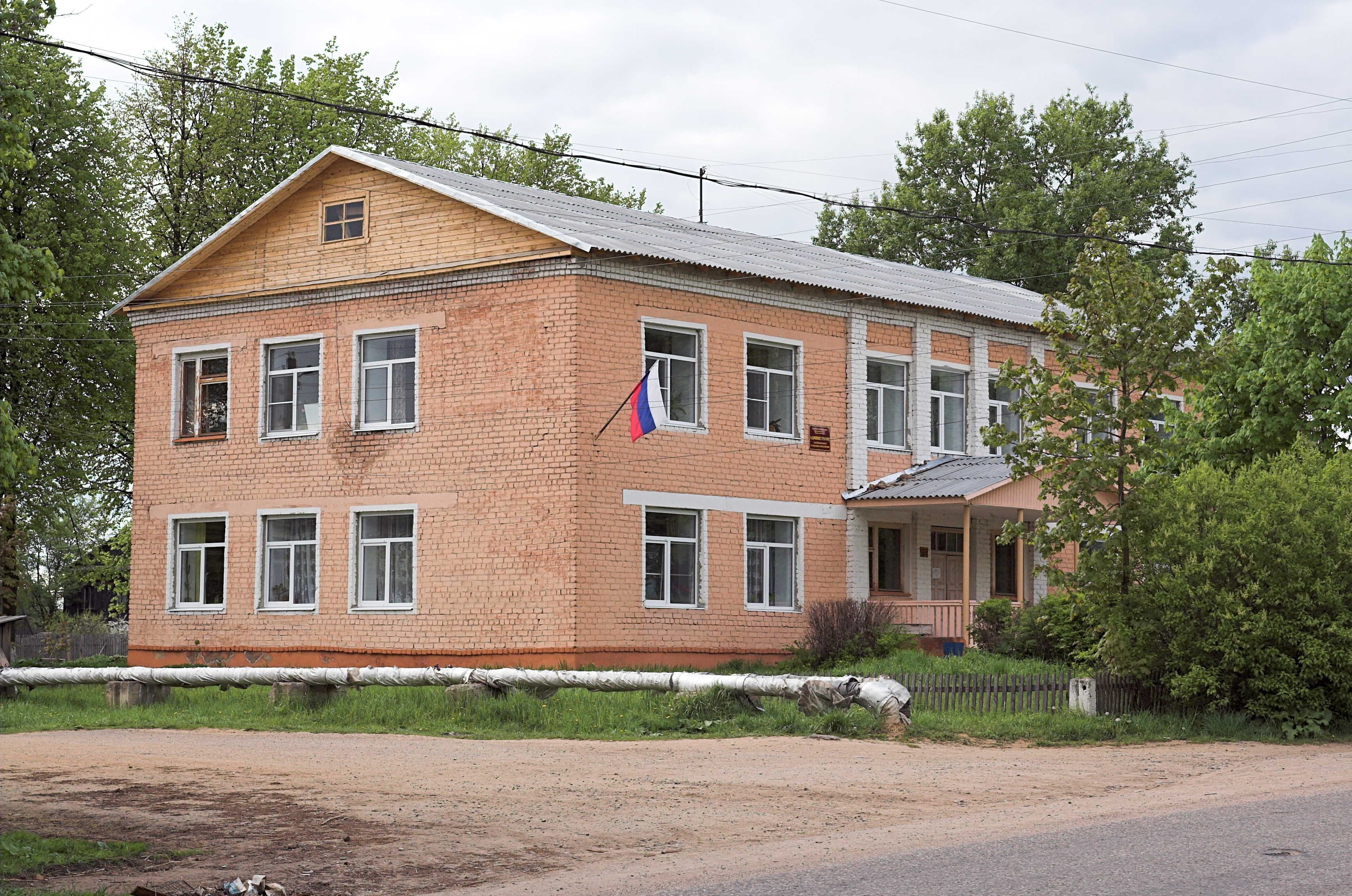 Administrative building in Nagorye village, Russia.